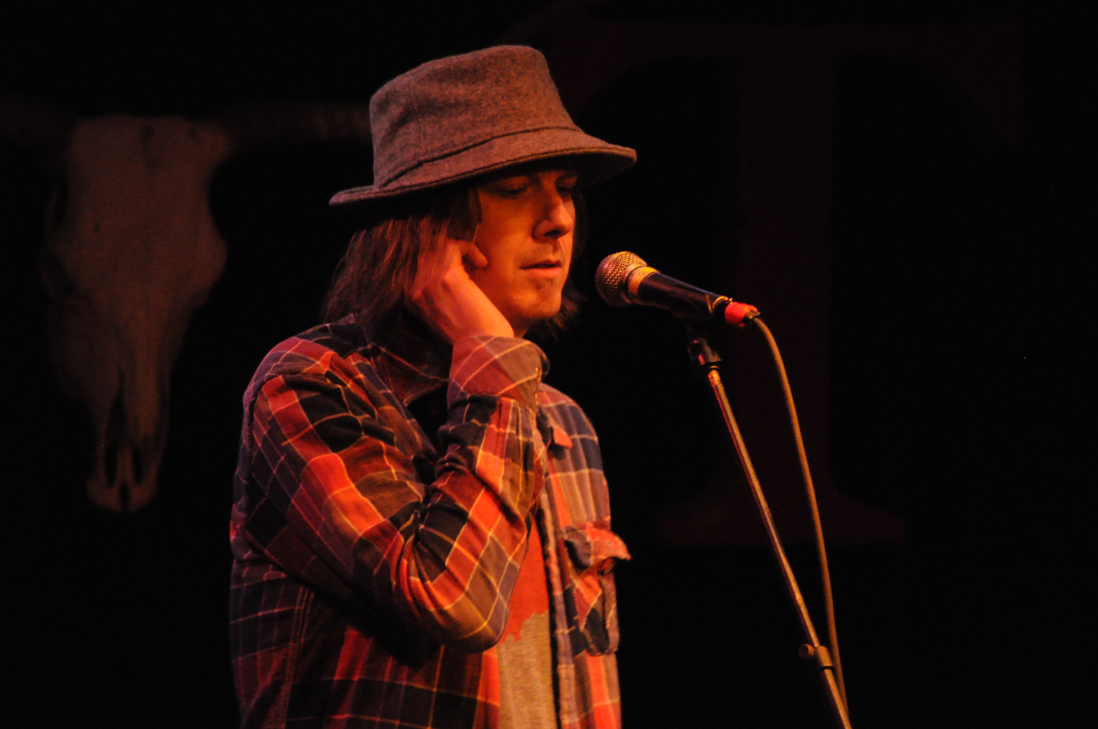 Musician Pete Droge performing as part of a tribute to Townes van Zandt on the 67th anniversary of his birth. Tractor Tavern, Ballard, Seattle, Washington.